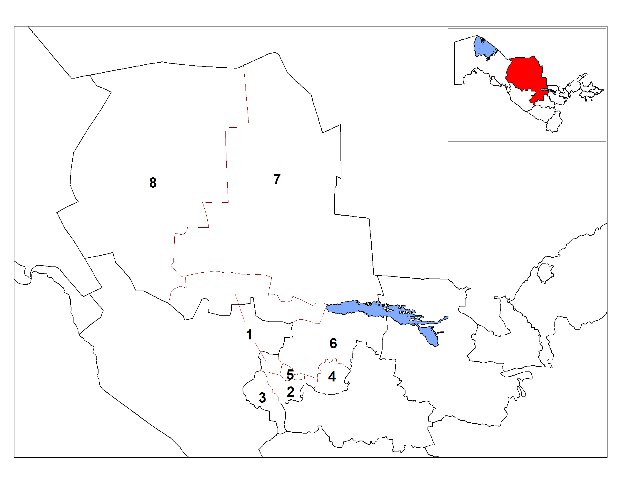 Map of the districts (tuman) of the province (viloyat) of Navoiy in Uzbekistan.